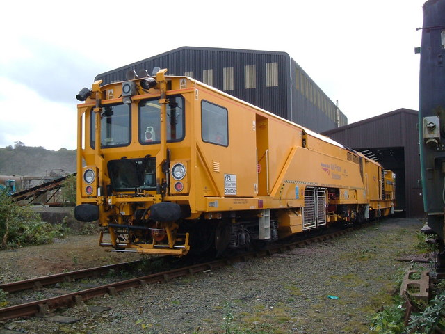 Multi-purpose Stoneblower.